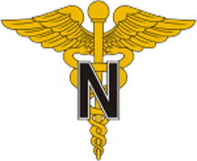 United States Army Nurse Corps collar brass. Made with Photoshop.